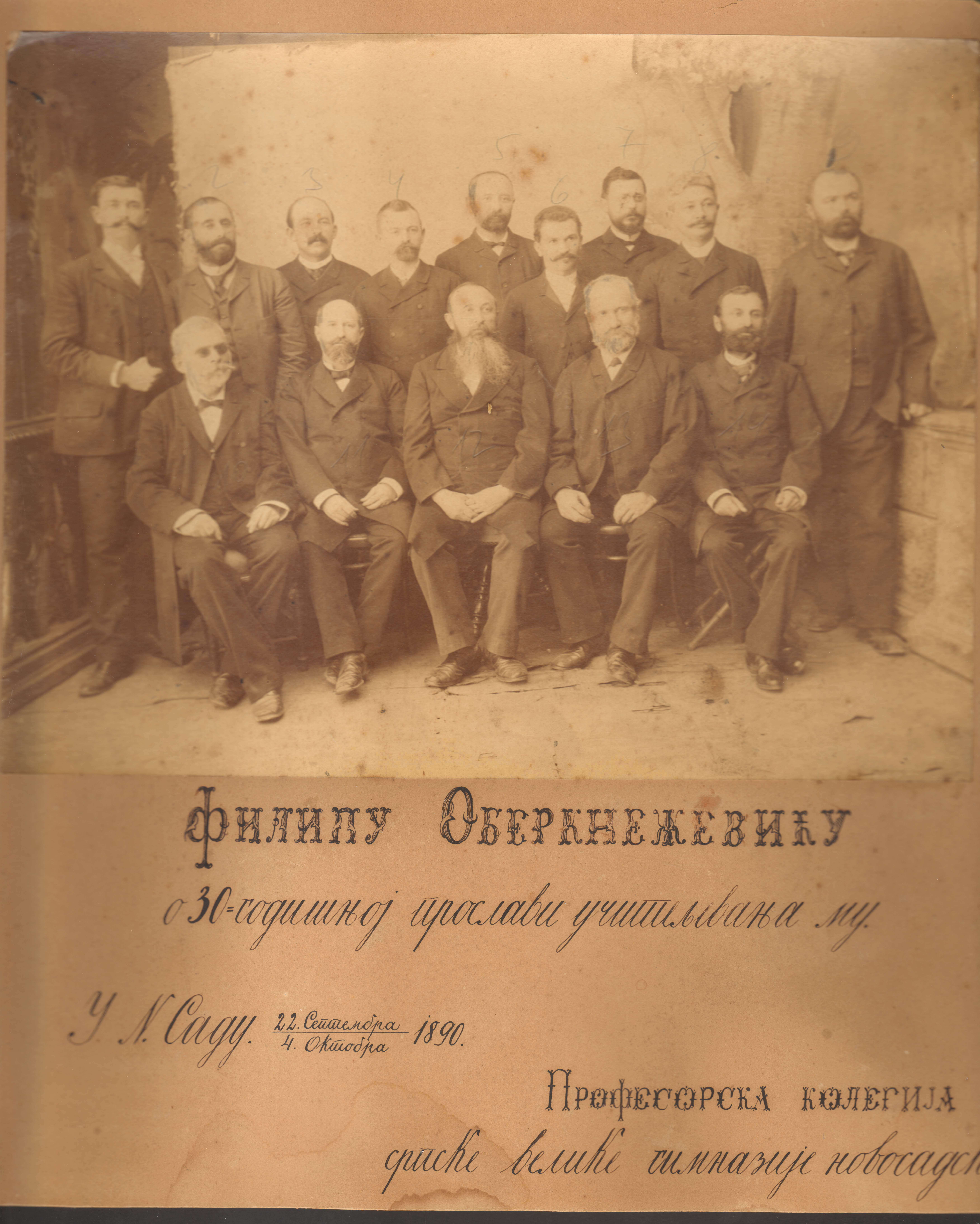 Photograph of the Collegium of professors of the Serbian Orthodox Gymnasium in Novi Sad given to their colleague Filip Oberknežević on the occasion of 30 years of work (1890), inventory number 320. Srpski (latinica): Fotografija profesorskog kolegijuma Srpske pravoslavne velike gimnazije u Novom Sadu sa posvetom Filipu Oberkneževiću povodom 30 godina rada (1890), inventarski broj 320.